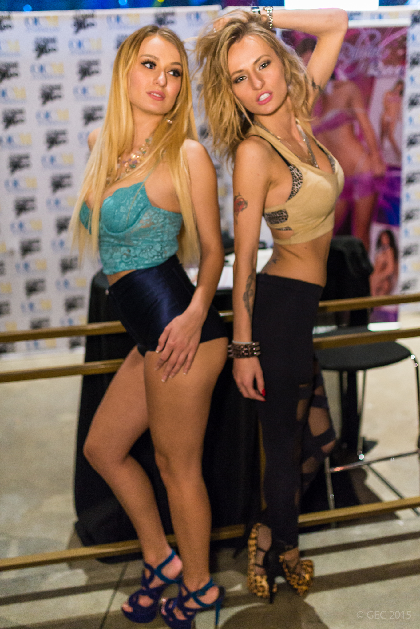 Natalia and Natasha Starr at the AVN Adult Entertainment Expo in Las Vegas on January 21, 2015